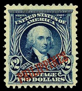 1899 overprint on U.S. stamp for use in the Philippines. $2 denomination